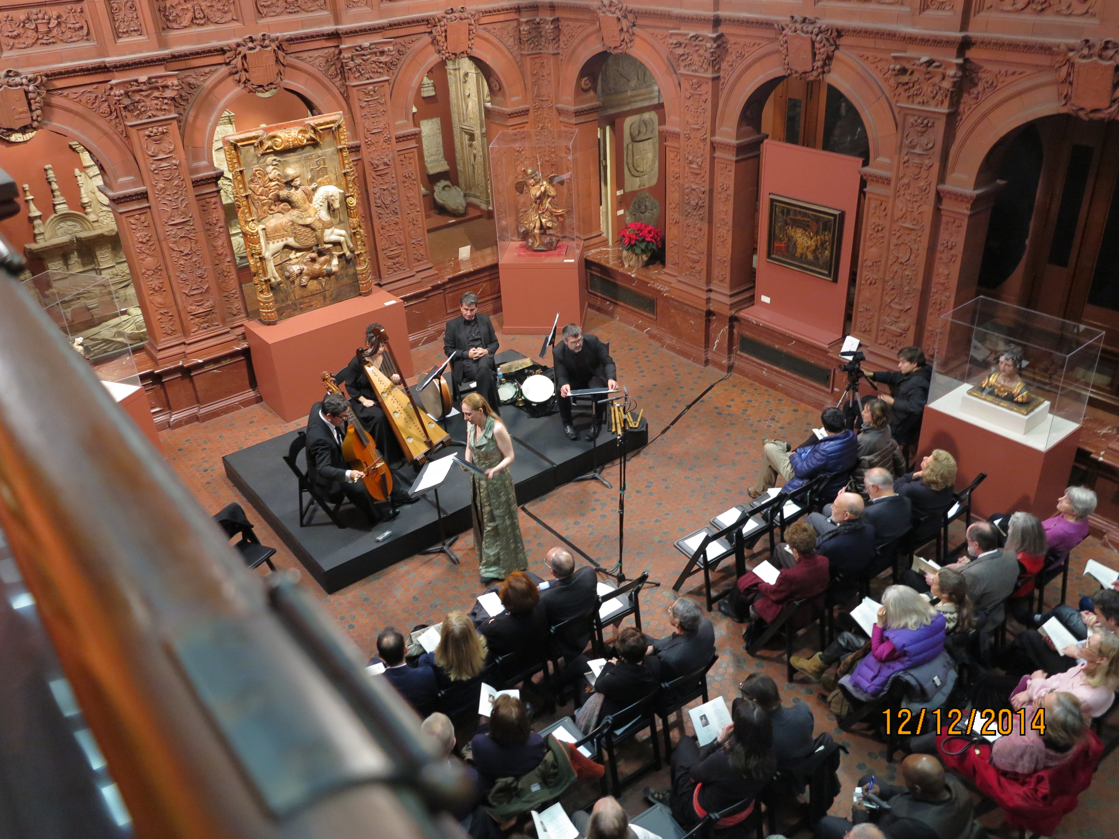 Carles Magraner conducting Capella de Ministrers in the Spanish Society of America